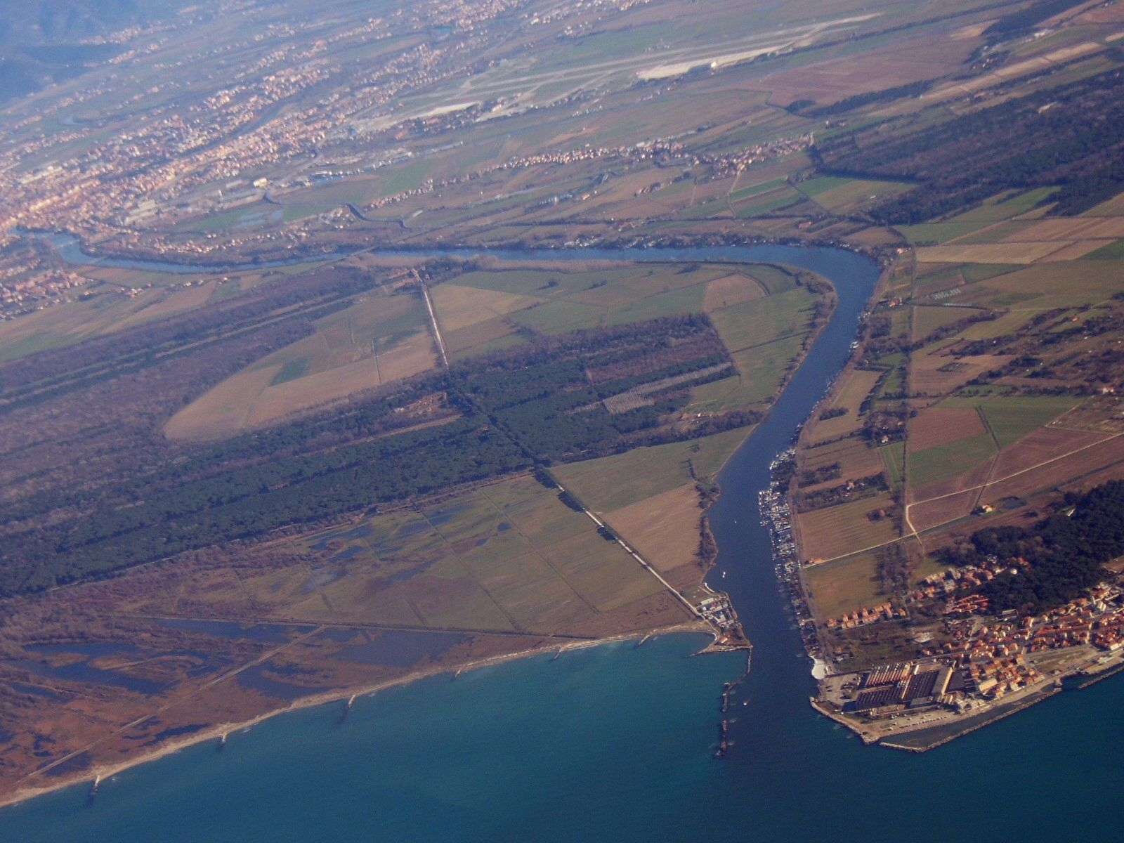 Mouth of Arno River near Pisa, Tuscany, Italy on the right side of the mouth is Marina di Pisa, in the background Pisa Airport and parts of Pisa can be seen.